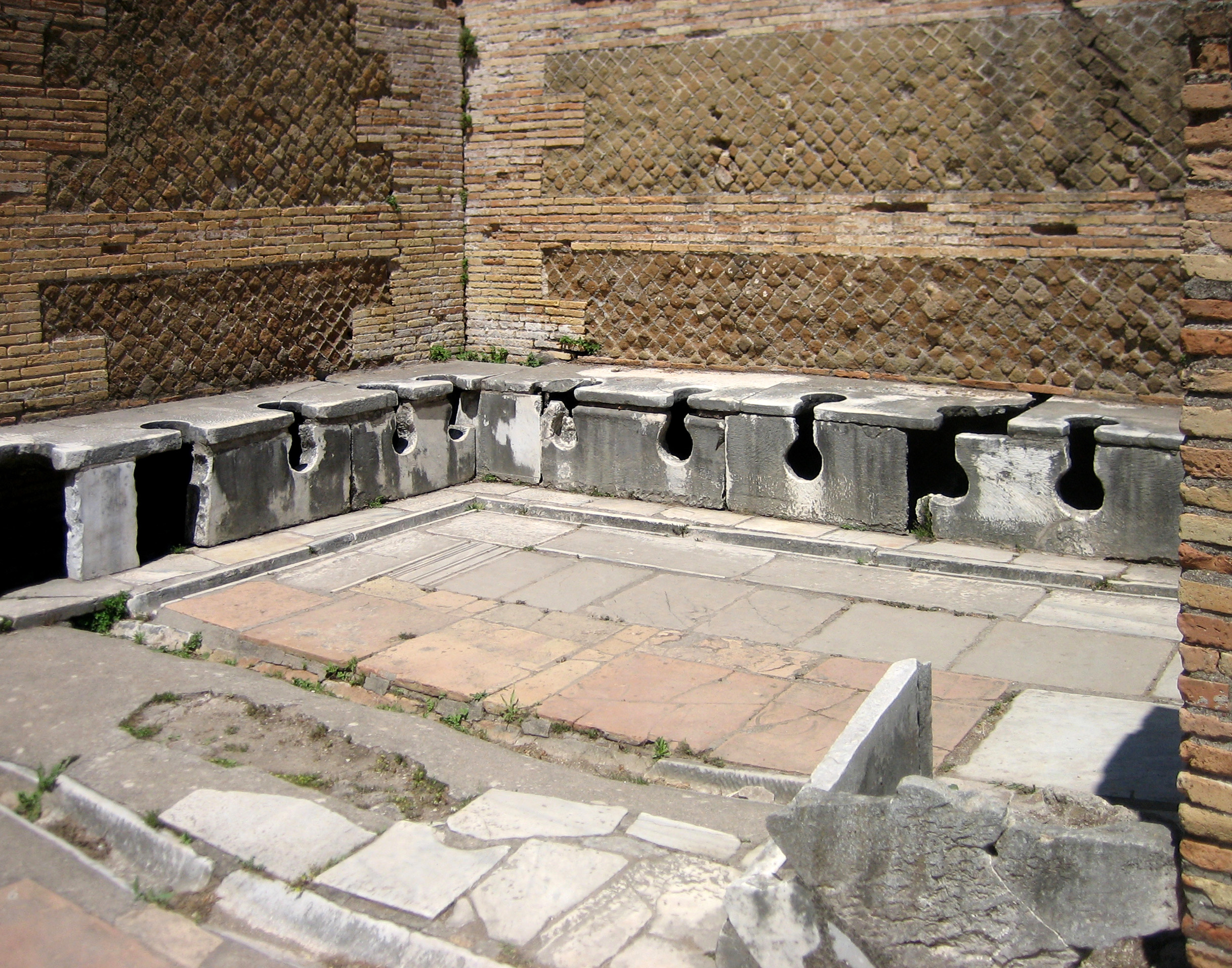 Latrine, opposite of the entrance to the forum baths.